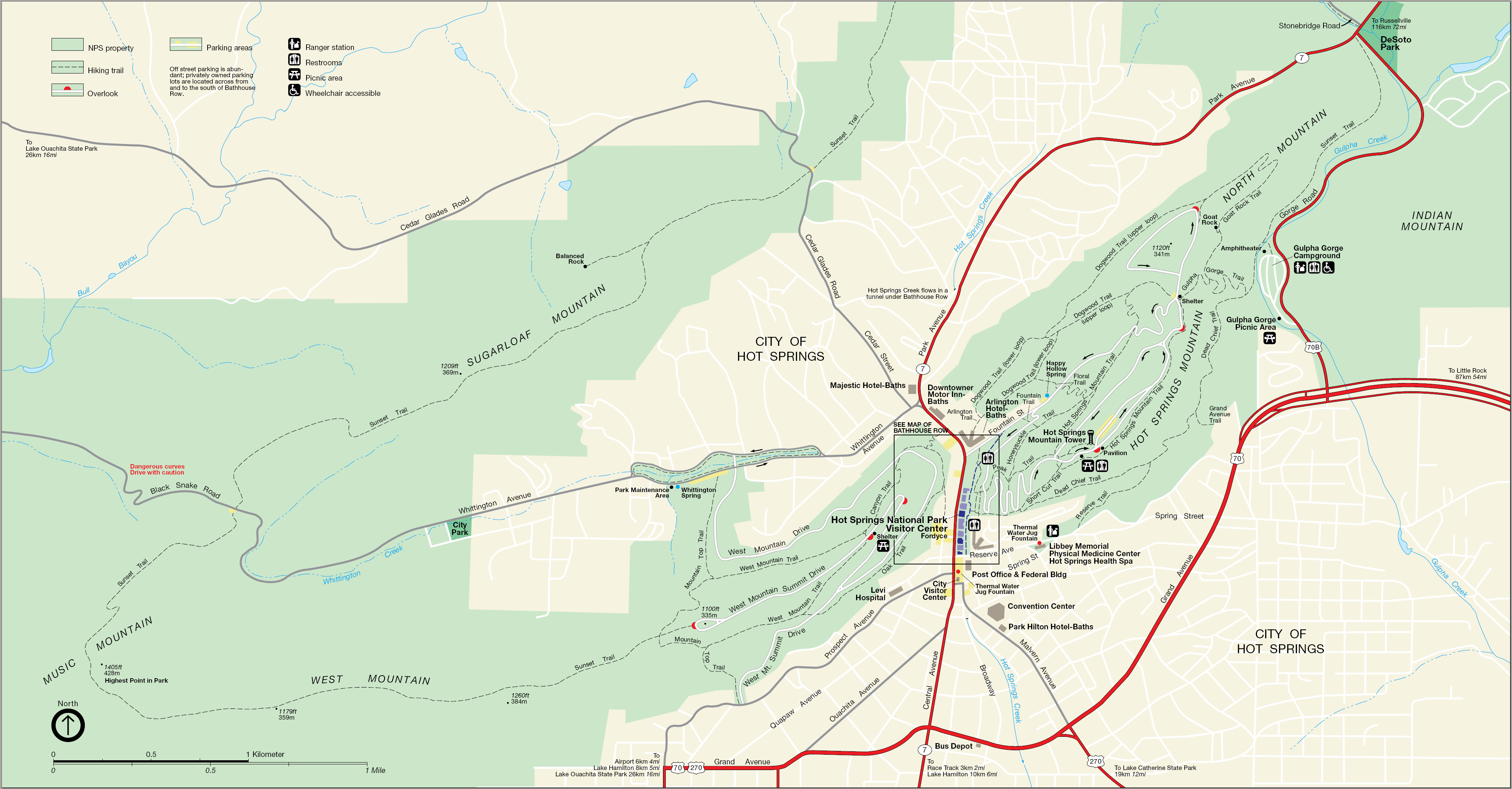 Map of Hot Springs National Park, in Arkansas.